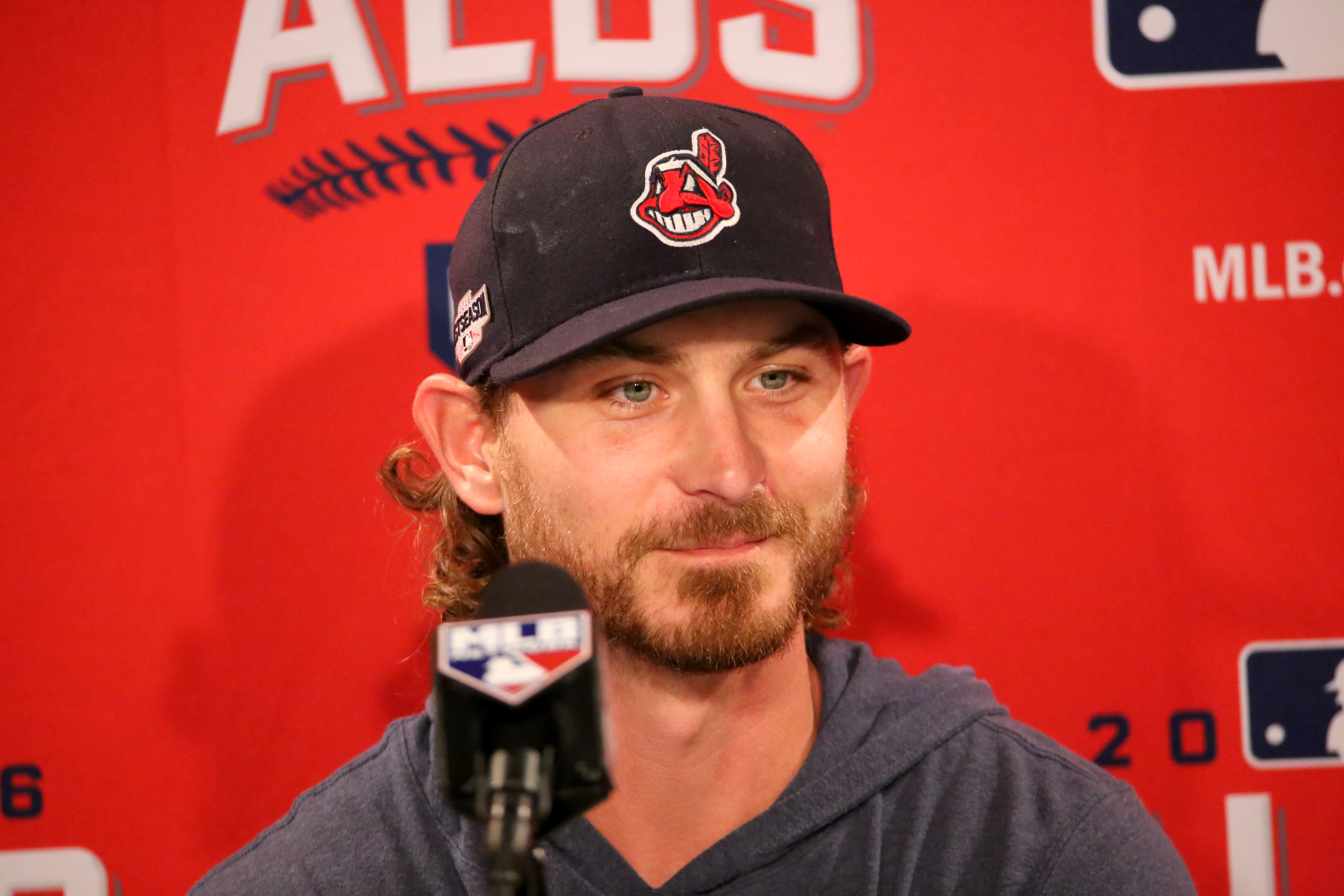 Indians Game 3 starter Josh Tomlin meets the media in Boston.